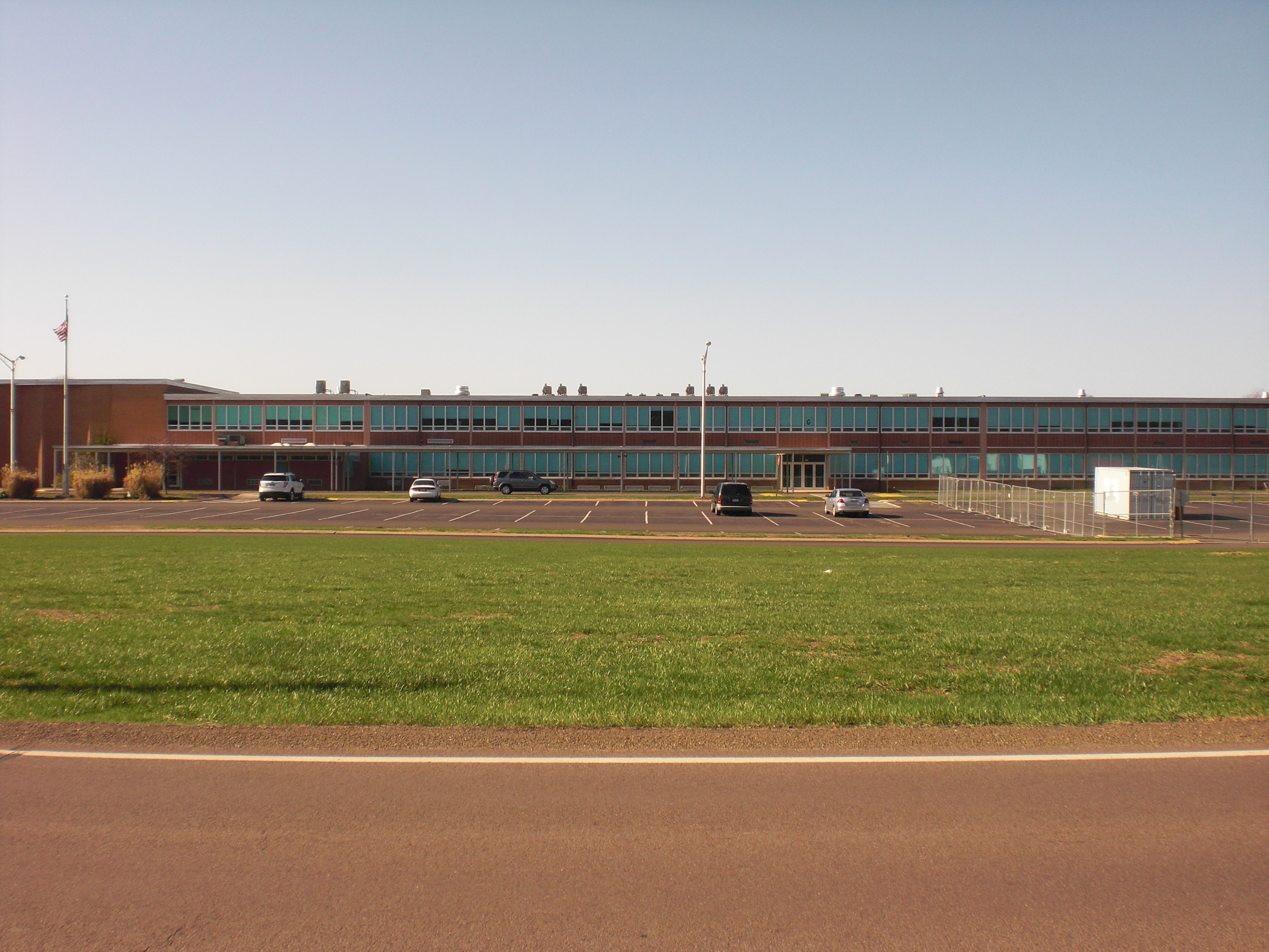 Central Columbia High School from Old Berwick Road